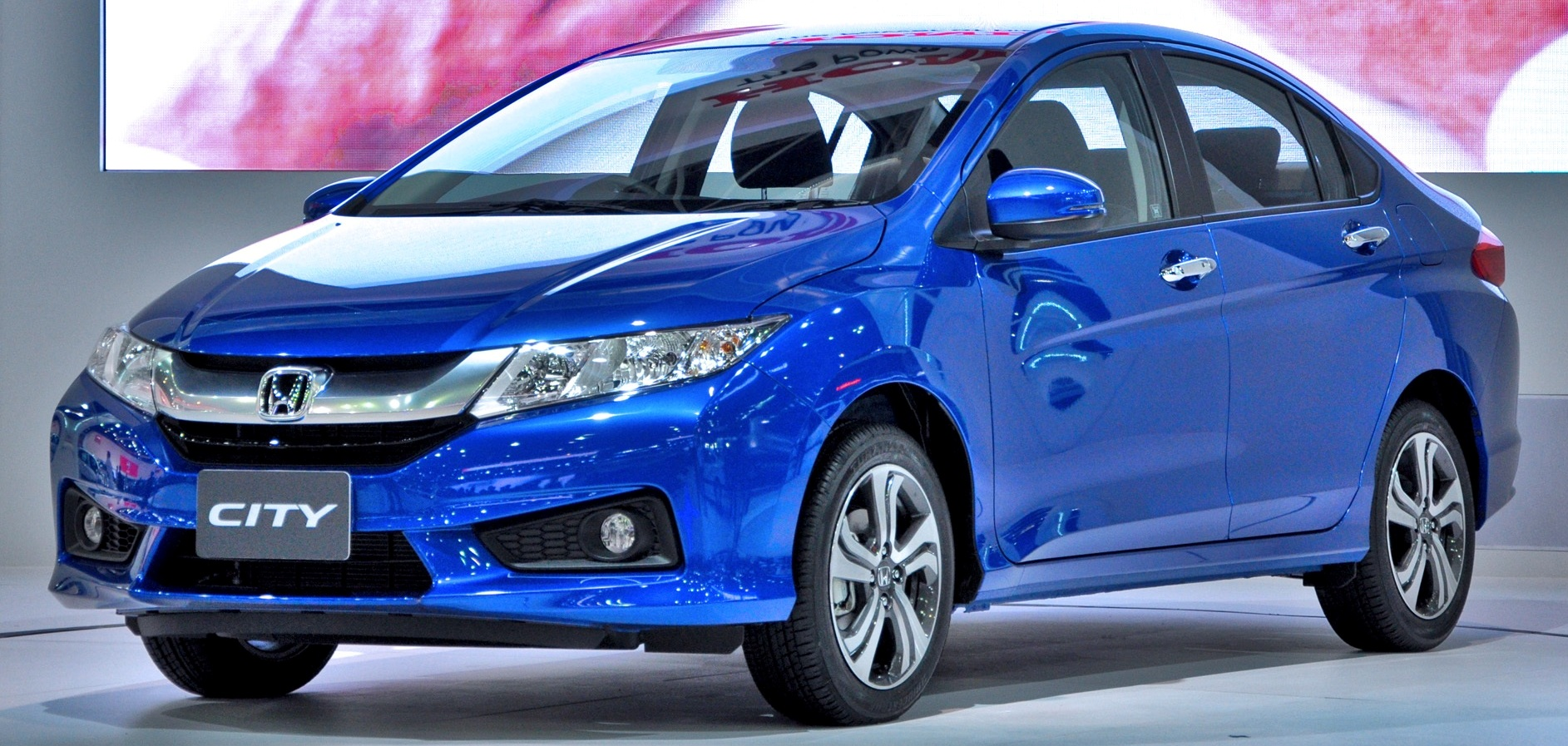 2014 Honda City at The 35th Bangkok International Motor Show.